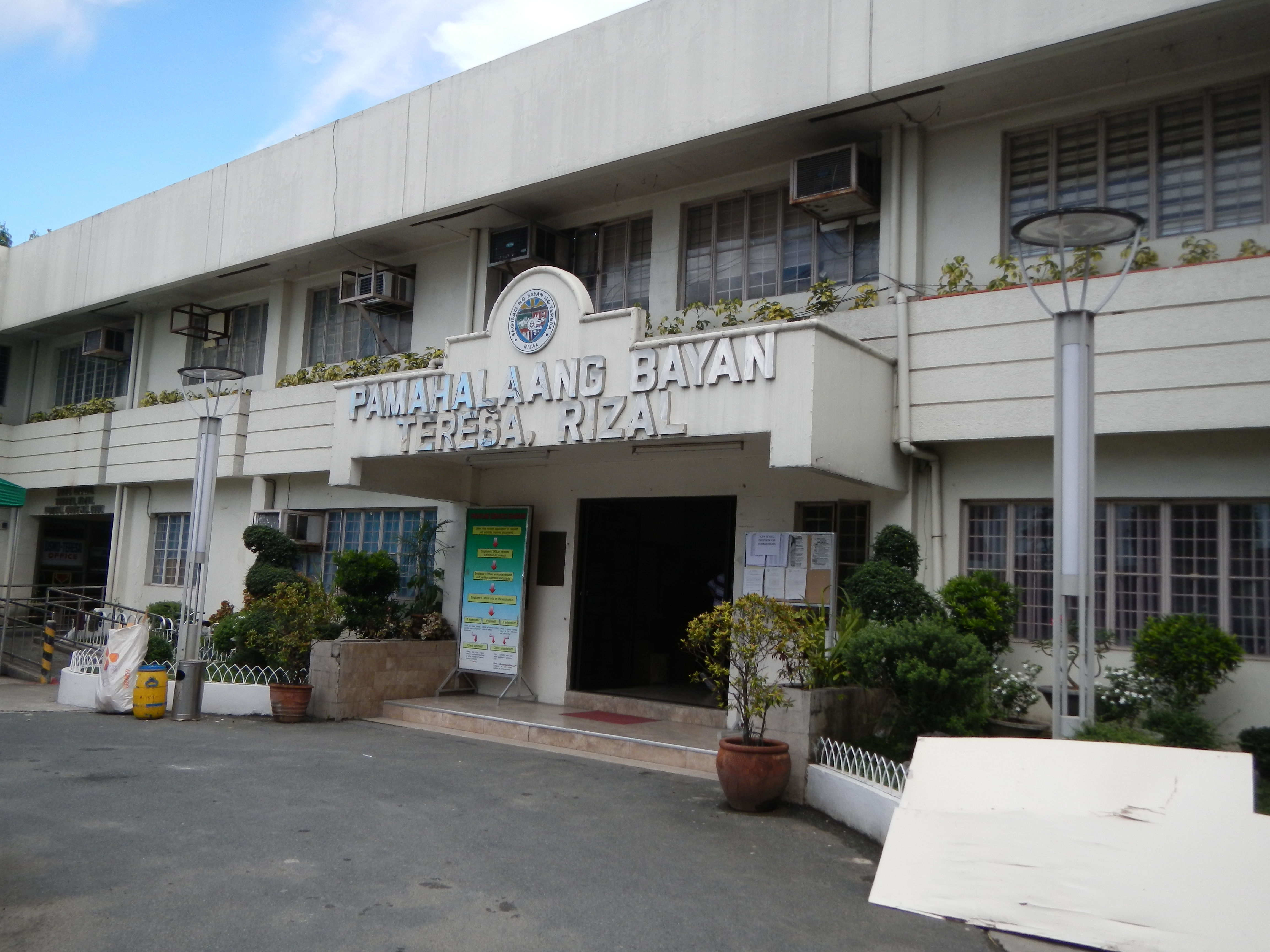 Municipal Hall of Teresa, Rizal[1] 14° 33' 32.01" N 121° 12' 29.25" E [2] M. L. Quezon Ave., Poblacion - Coordinates: 14°33'30"N 121°12'28"E [3] Downtown, Town Proper ---- Teresa, Rizal [4] is a first class municipality in the province of Rizal, Philippines subdivided into 9 barangays. According to the latest census, it has a population of 44,436 inhabitants in the slopes of the Sierra Madre Mountains and is landlocked on four corners by Antipolo City on the north, Angono on the west, Tanay, on the east, and Morong, on the south. The MRF or Materials Recovery Facility (Teresa Integrated Solid Waste Management Facility) was completed last December 15, 2007 at Pantay Buhangin Road, Barangay Dalig. The town's patron saint, St. Rose of Lima.[5] After three years of independence, the town acquired a municipal building on November 8, 1921, which was called Presedencia. Election 2013 Website [6] Coordinates: 14°33'46"N 121°13'28"E [7] This place is situated in Rizal, Region 4, Philippines, its geographical coordinates are 14° 33' 31" North, 121° 12' 30" East and its original name (with diacritics) is Teresa.